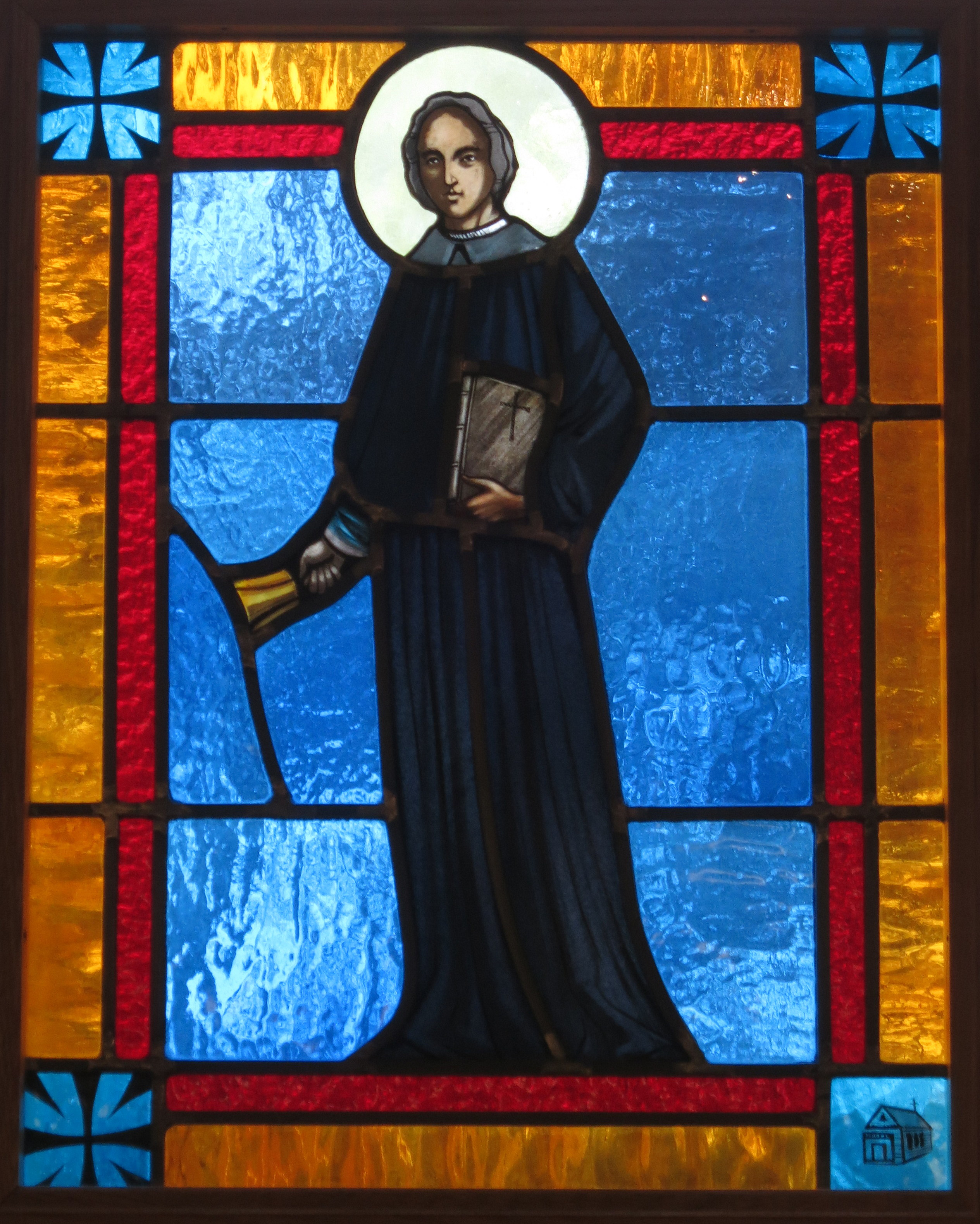 Saint Stephen, Martyr Roman Catholic Church (Chesapeake, Virginia) - stained glass, St. Elizabeth Ann Seton